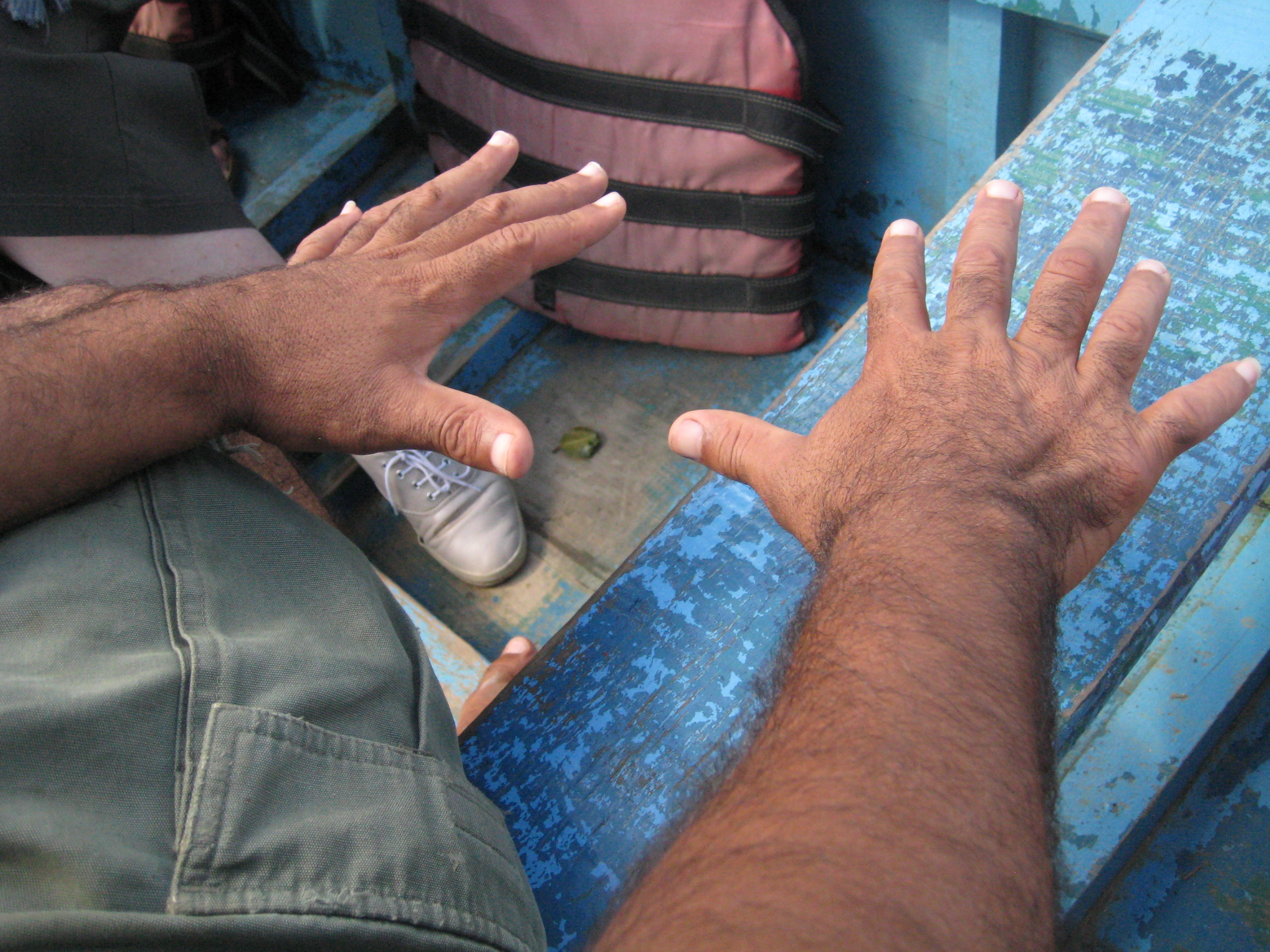 Polydactyly: Each hand has 6 fingers.